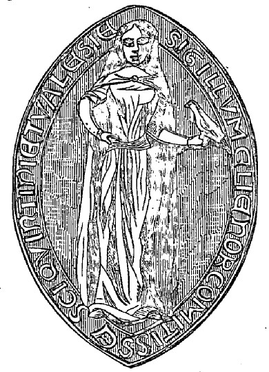 Eleonor of Vermandois